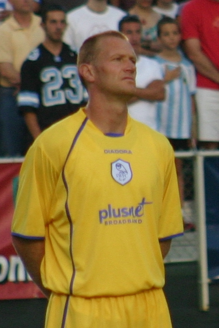 Lee Bullen in SWFC's pre-season tour of the USA. USL All-Stars v Sheffield Wednesday 19th July 2006. Author: W. Jarrett